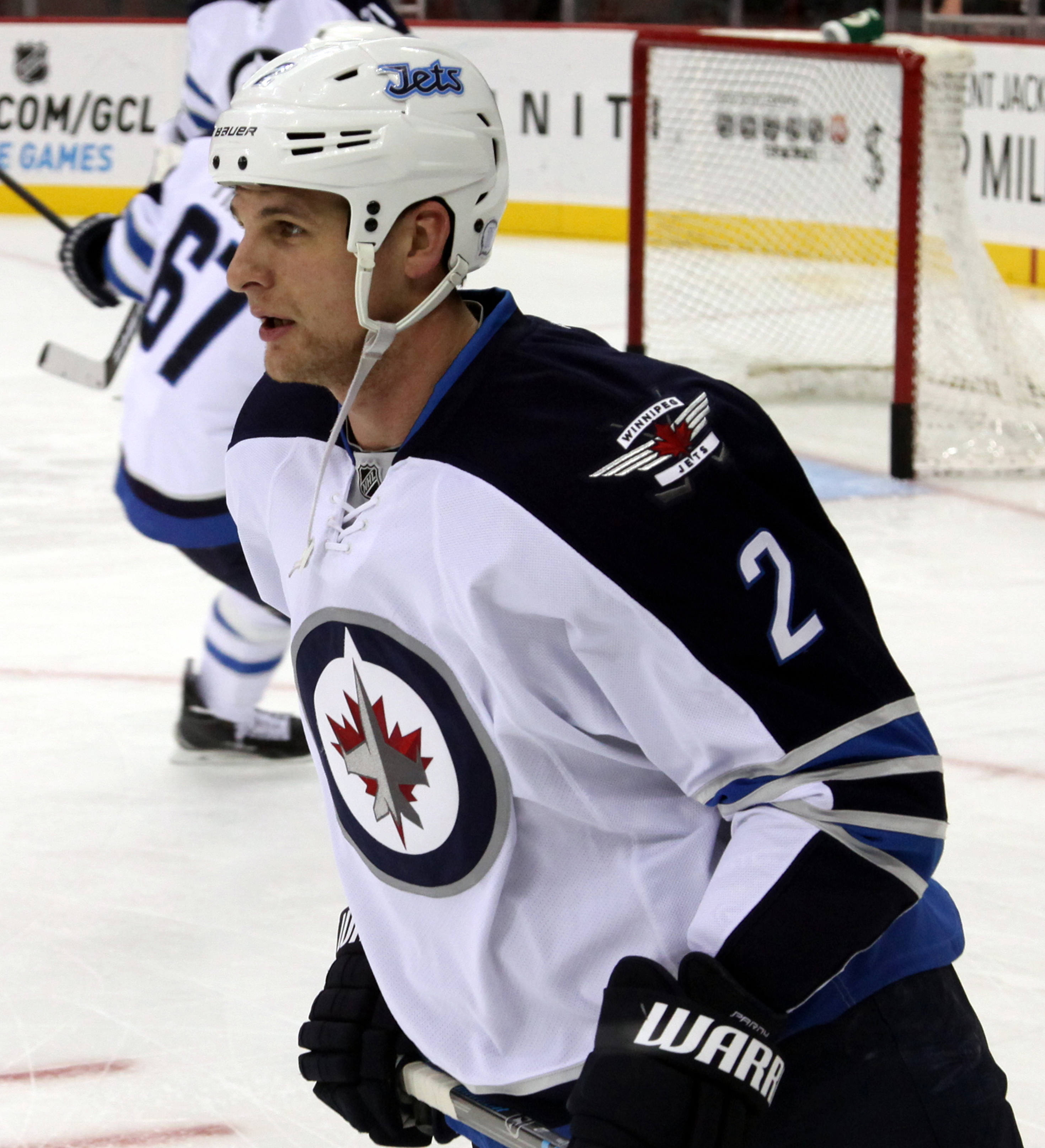 Pardy in October 2014.